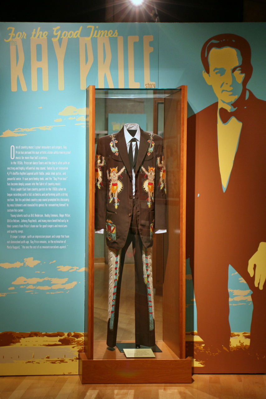 The Country Music Hall of Fame and Museum paid tribute to American music architect Ray Price with an exhibit, For the Good Times: The Ray Price Story which opened in the Museum's East Gallery in August 2006 and ran through June 2007.